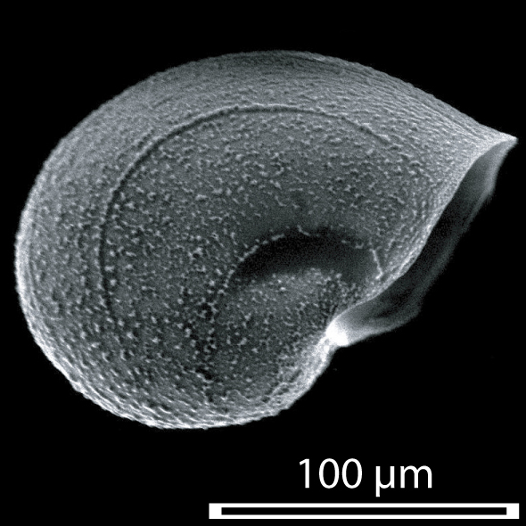 SEM image of protoconch of Haliotis asinina 11 hours post fertilisation. pc - protoconch